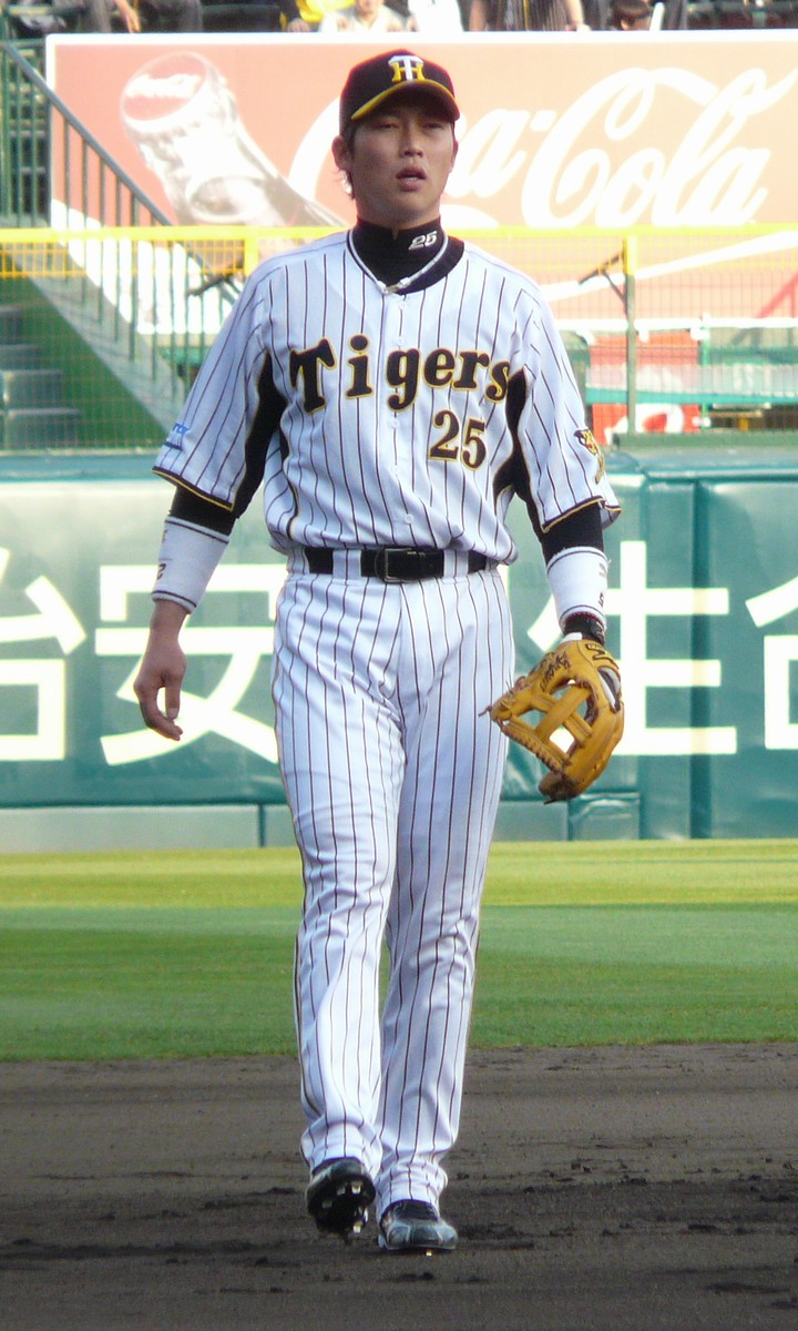 Takahiro Arai, infielder of the Hanshin Tigers, at Hanshin Koshien Stadium.